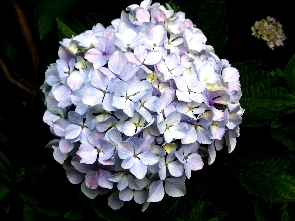 A group of flowers in Kamakura, Japan